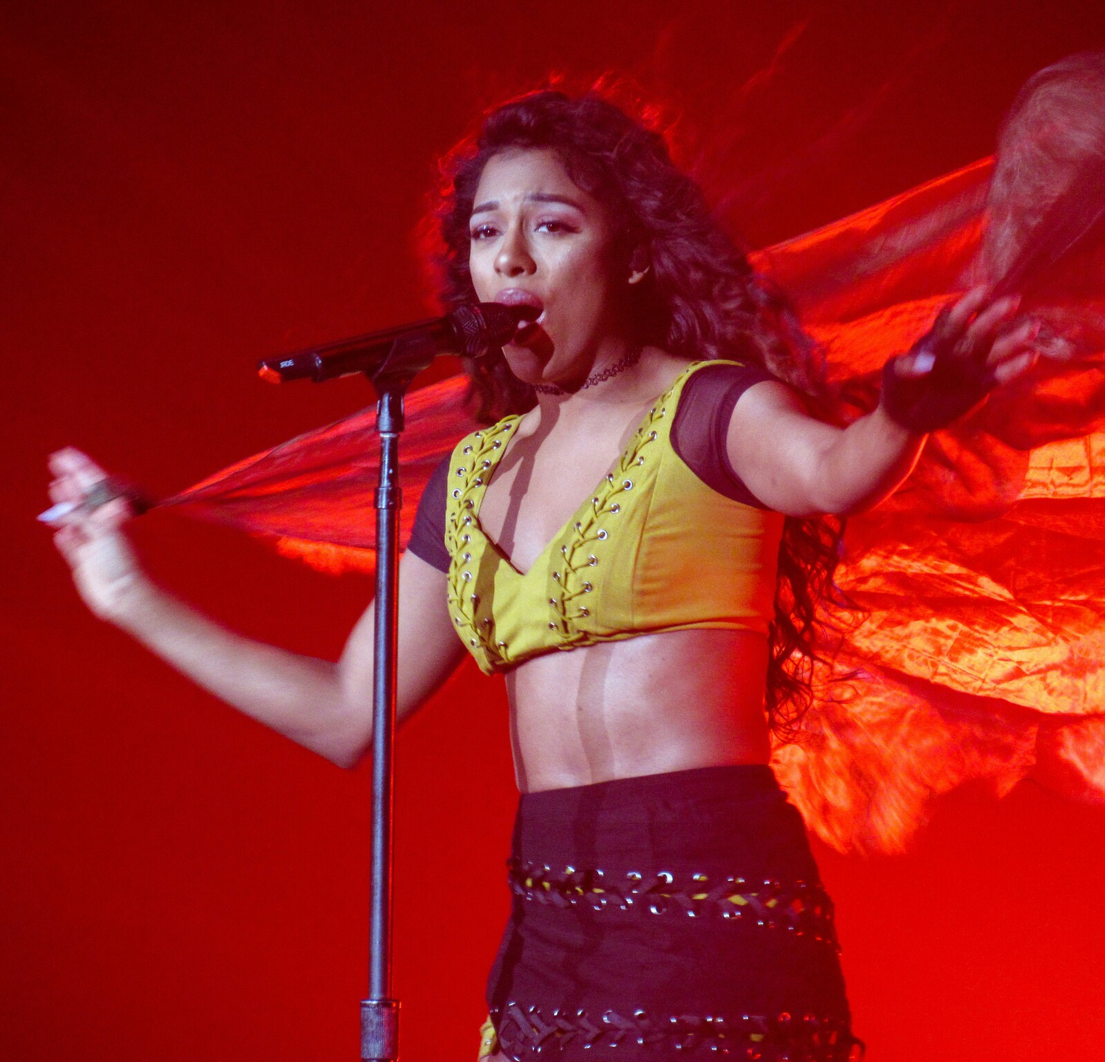 Victoria Monét performing during a Dangerous Woman Tour concert.